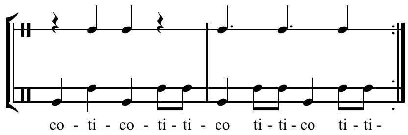 Campana (Spanish: "bell") bell pattern below a 2-3 clave rhythm.